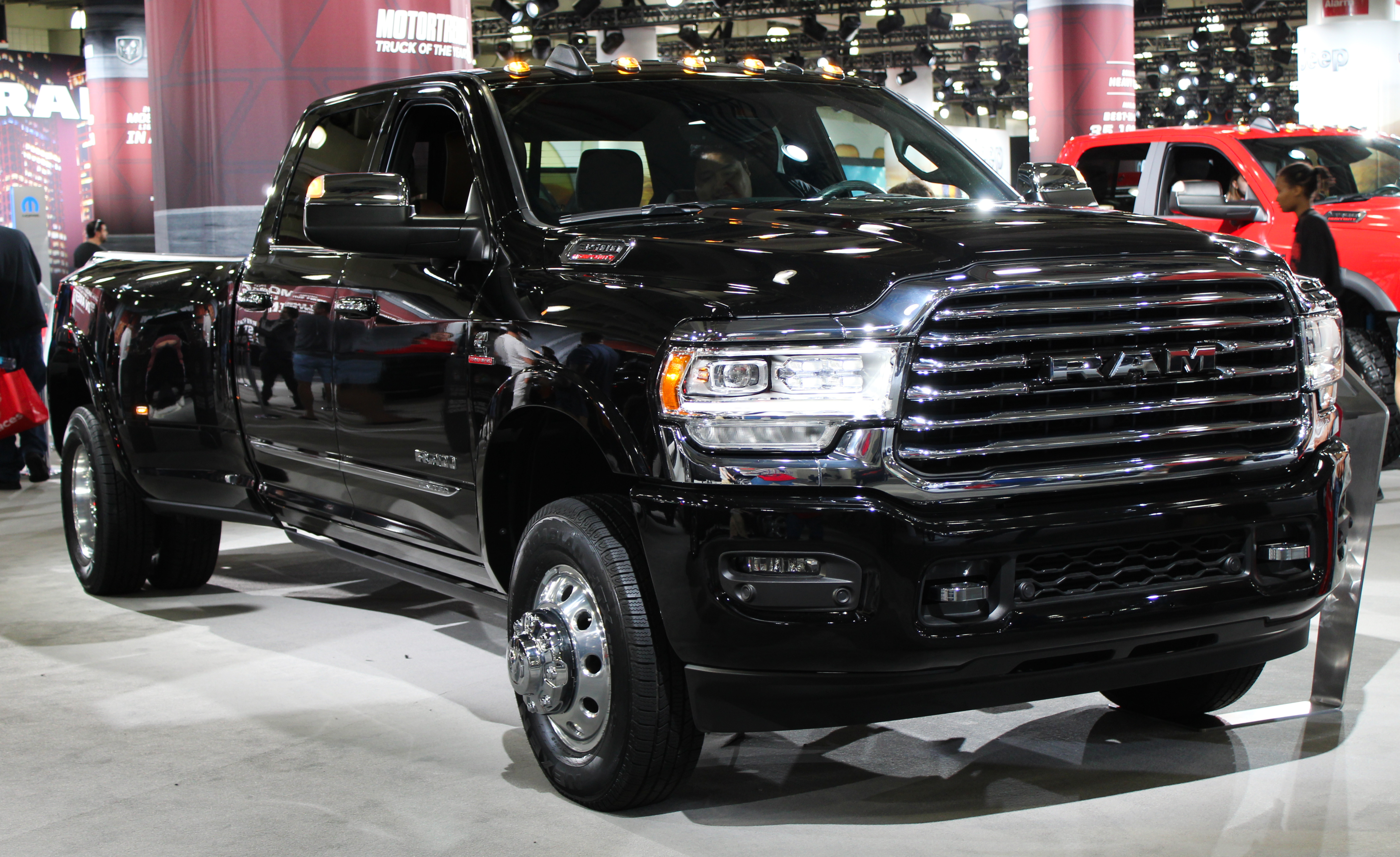 A 2019 Ram 3500 Heavy Duty photographed during the 2019 New York International Auto Show, in Hudson Yards, Manhattan, NYC